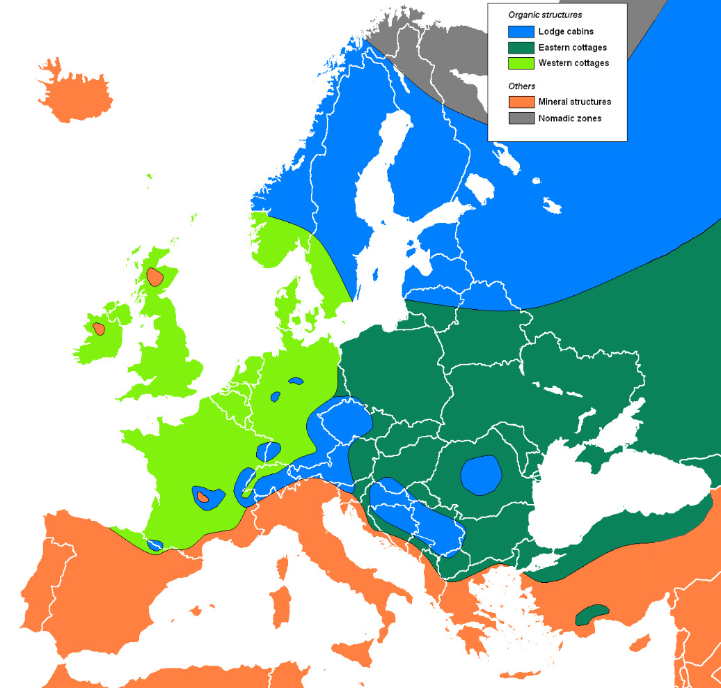 Distribution of the main types of traditional farms in Europe